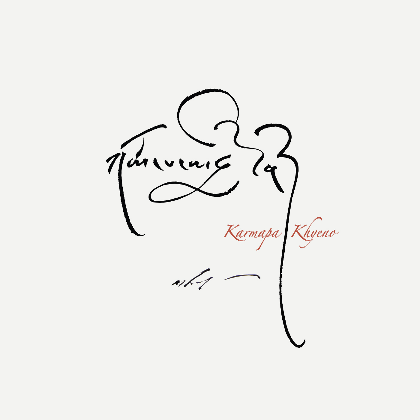 The CD cover is an exclusive artistic production of his holiness the 17th Gyalwang Karmapa Ogyen Trinley Dorje leader of the Karma Kagyu.